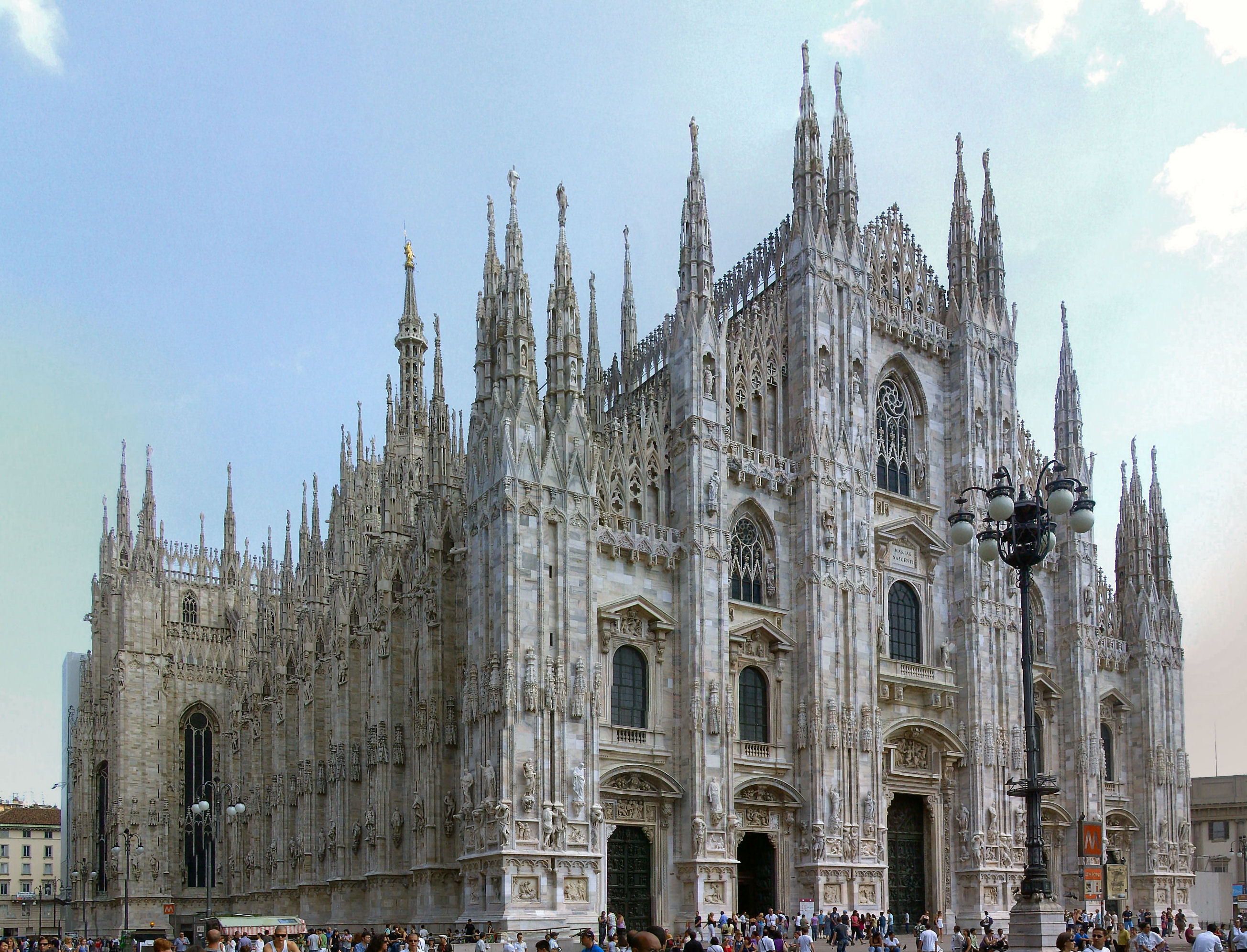 Complete view of the Milan Cathedral